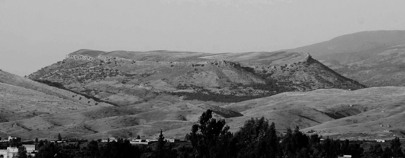 View from the north-west of the massif of Tasghîmût, Morocco; photo by Chloe Capel